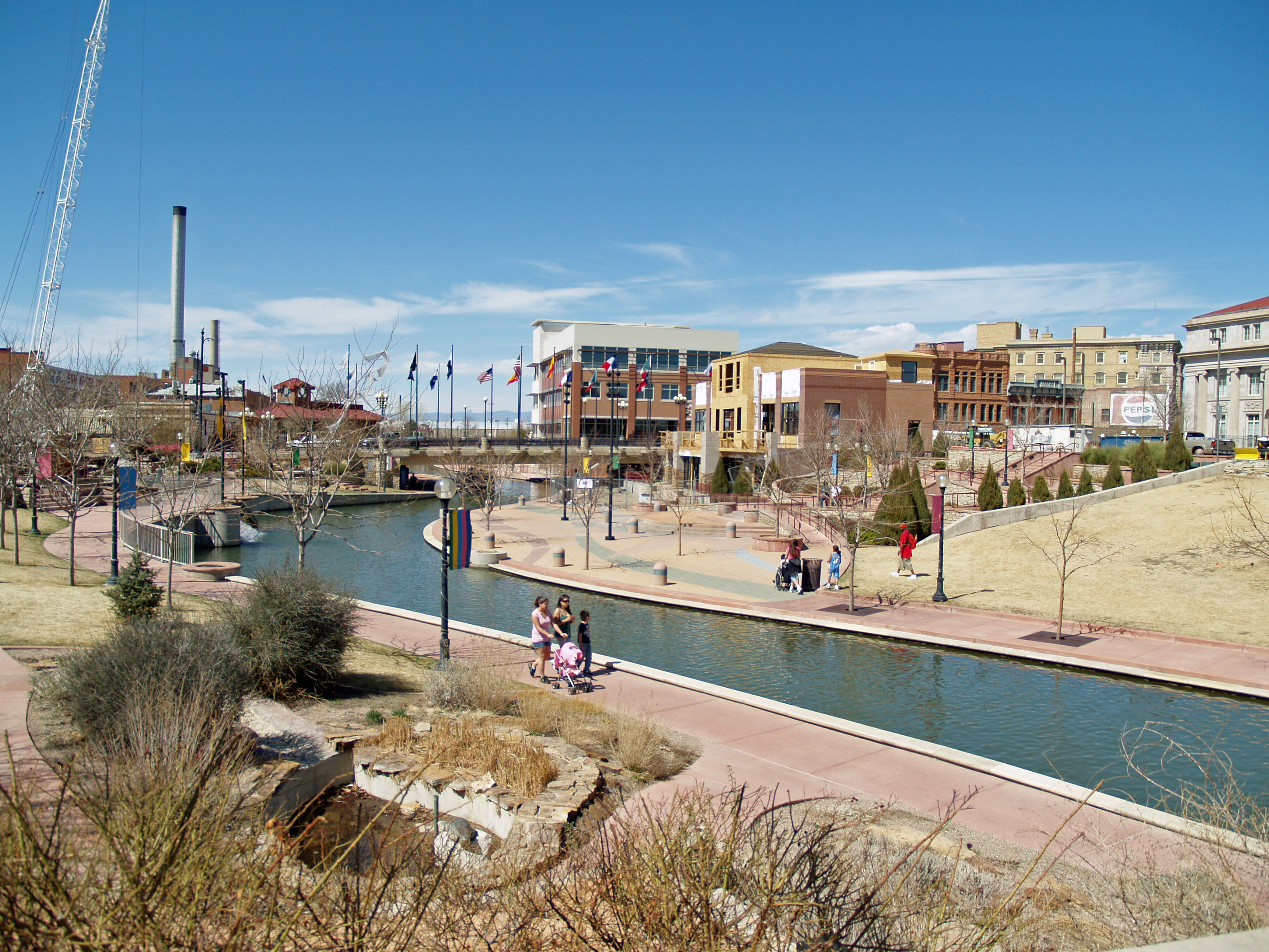 Pueblo river walk in Colorado.